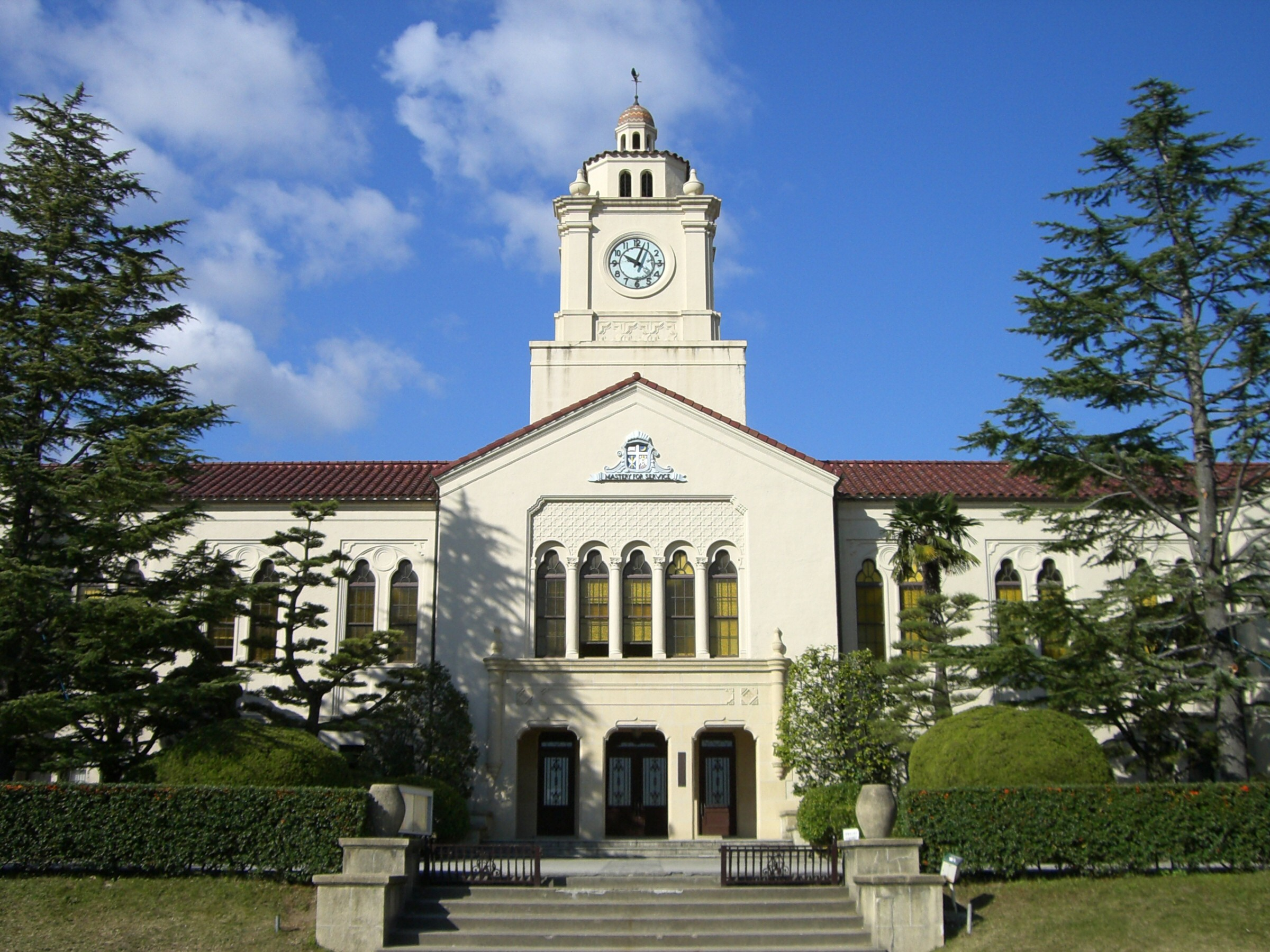 Kwansei Gakuin University Museum (the former library building) in Hyogo, Japan